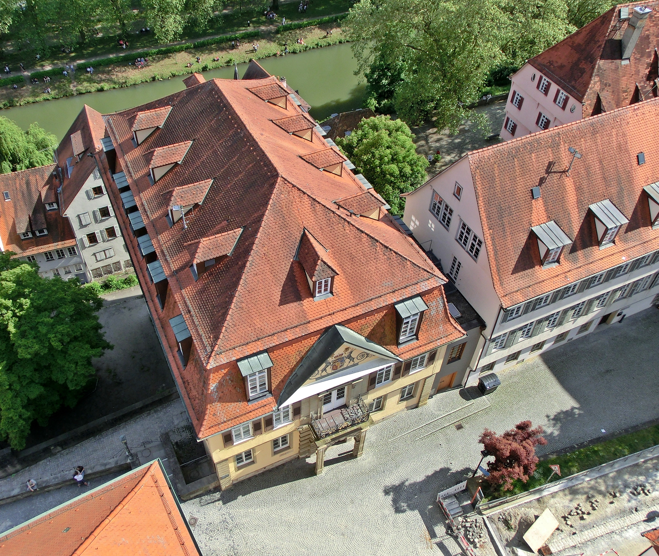 The old auditorium of the University of Tübingen; picture taken from the tower of St. George's Collegiate Church.